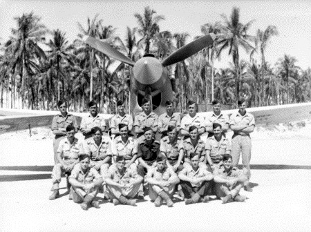 Los Negros, Admiralty Islands, New Guinea. 28 May 1944. Group portrait of pilots of No. 76 Squadron RAAF, No. 73 Wing, with one of their Curtiss P40 Kittyhawk aircraft on Momote airfield. Back row, left to right: Sergeant (Sgt) Alec Makeham; Sgt Wally Nugent; unidentified Sgt; Pilot Officer (PO) Jim Morris; Sgt (Red) O'Meara; unidentified Sgt; ?Sgt Jim Cornish; unidentified Flight Sergeant. Middle row: Flight Sergeant (Flt Sgt) B. (Bruce) Gogerly, (later with No. 77 (Meteor) Squadron RAAF in Korea); Flying Officer (FO) J. (John) Plain; ?Flight Lieutenant (Flt Lt) C. (Charles) Roe or F. Humphries Medical Officer; 402846 Flt Lt F. L. (Leigh) Bowes, soon to be Squadron Leader, Commanding Officer No. 76 Squadron RAAF; FO W. (Bill) Cashmore; unidentified Flt Lt; unidentified FO. Front row: unidentified Flt Sgt; unidentified Sgt; ?Sgt F. (Frank) Miles or A. (Alan) Carthew; Flt Sgt Noel Butler; unidentified PO. Members of No. 76 Squadron RAAF at that time not identified in this photograph: Flt Lt Jim Harrison; Flt Sgt Cliff Willis; FO Bruce Caldwell; Flt Sgt Val Higgins; Flt Sgt Neville Ellis; John Lundy.